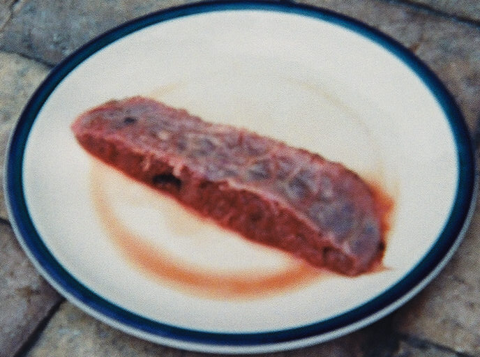 A slice of a placenta, baby side up. Note the blob of clotted blood. Recipes here